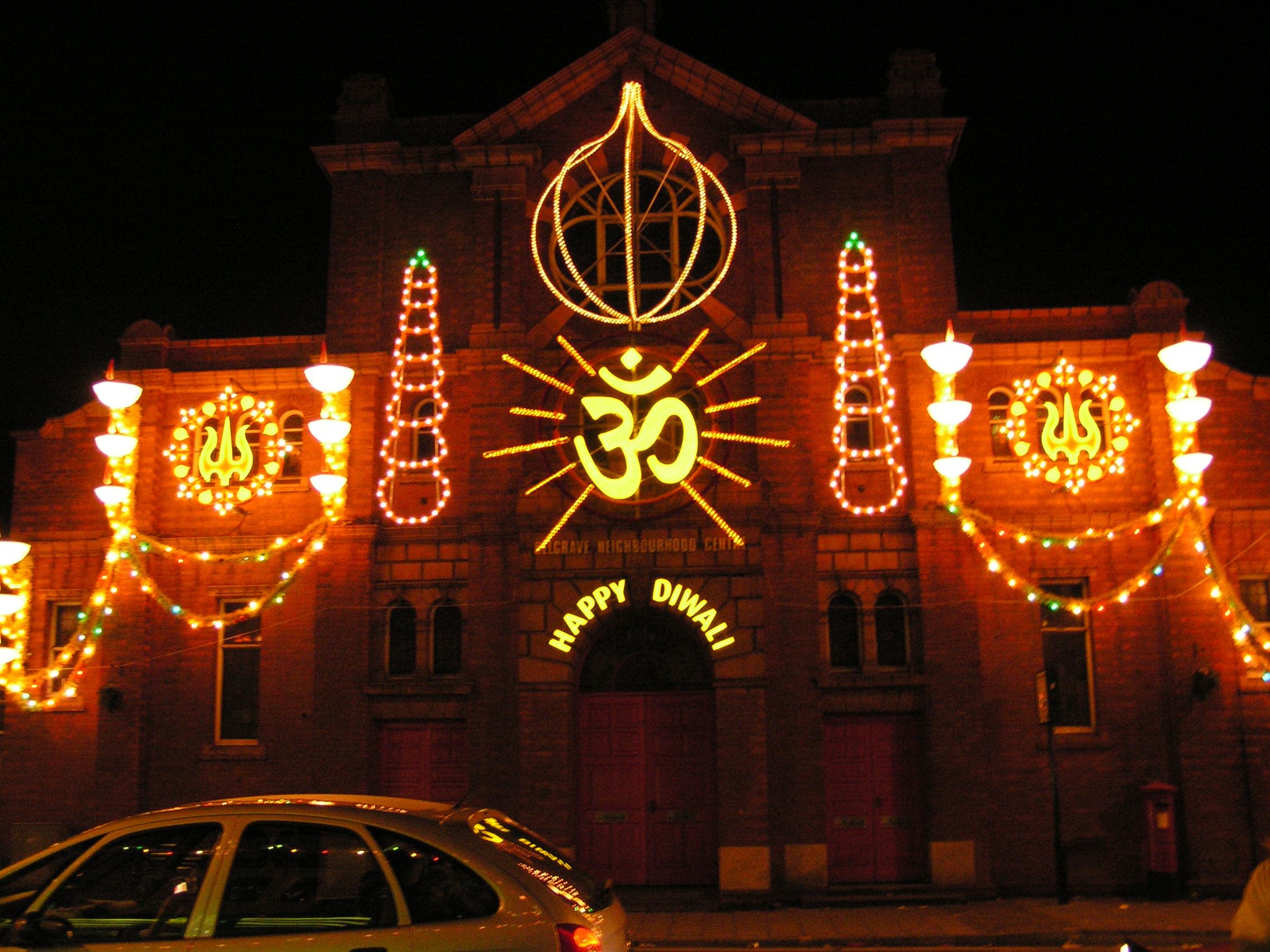 Dipavali is celebrated outside South Asia, in many parts of the world.